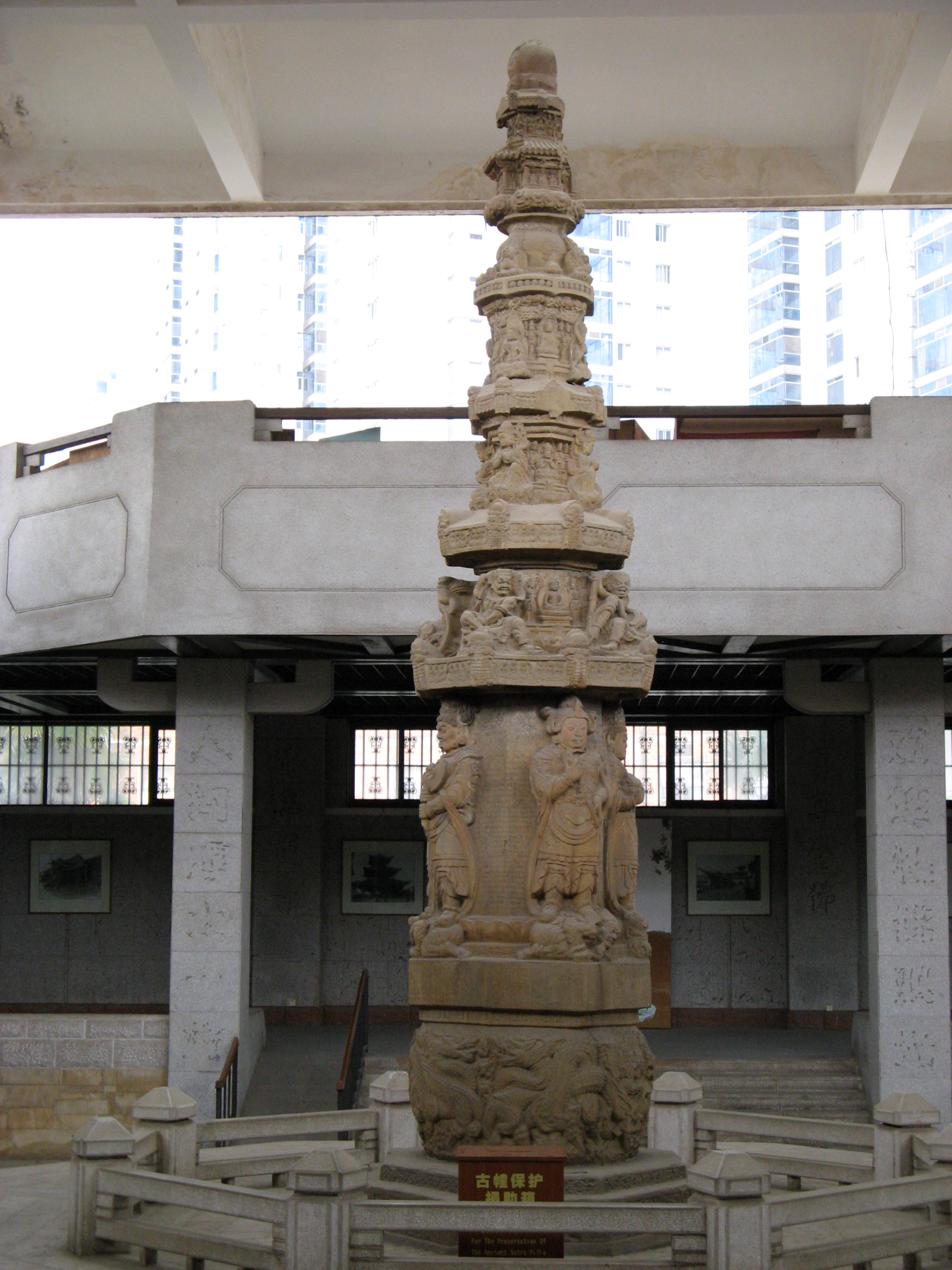 Dharani Pillar. Dali Kingdom, 1200-1220 AD. Kunming City Museum. This finely-carved pillar originally occupied the grounds of a temple which has since disappeared. Much later, the City Museum was built on the site, leaving the pillar undisturbed. Constructed in 9 levels upon an octagonal base, and over 8m (26 feet) tall, the red sandstone pillar represents both a Mt. Sumeru world-axis and an Esoteric Buddhist mandala.